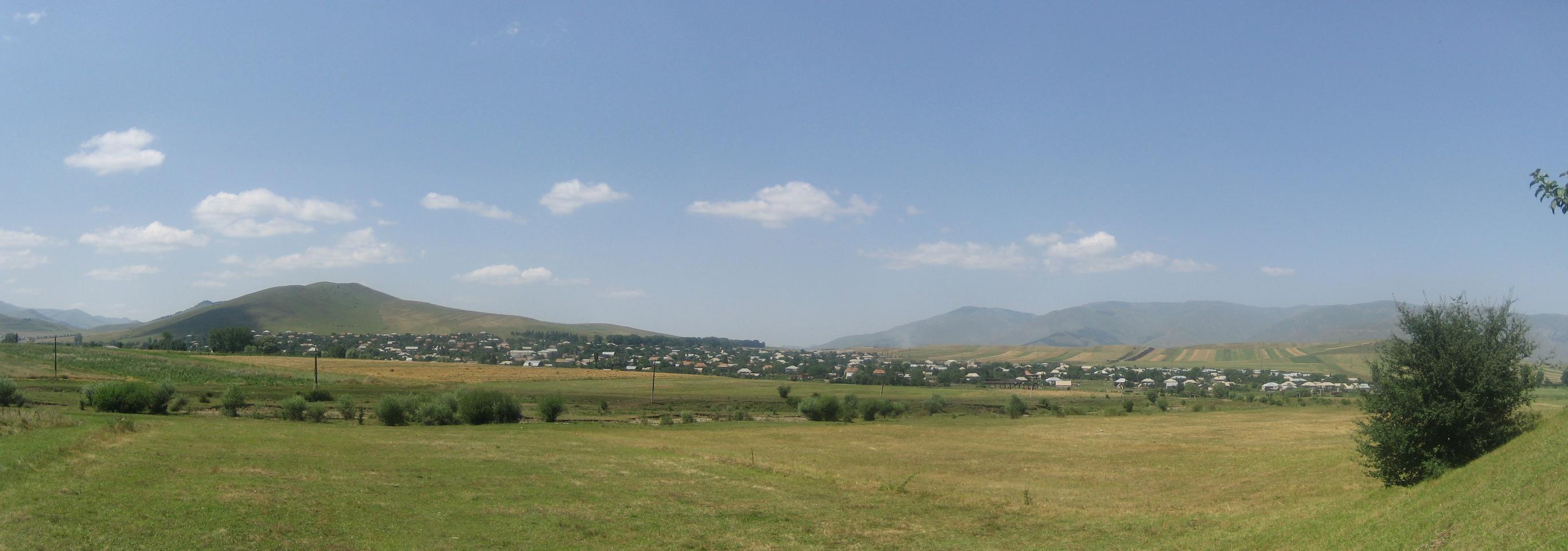 Skyline of the village of Gyulagarak in the Lori province of Armenia.